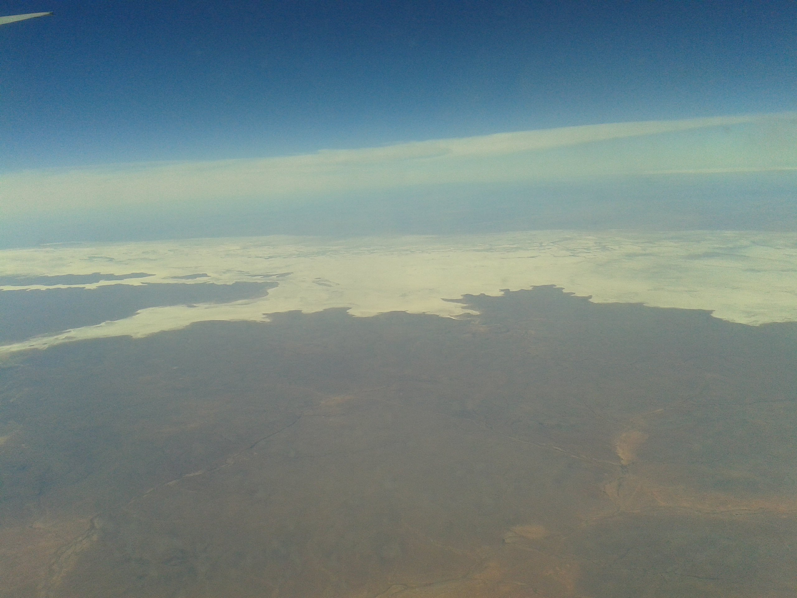 Wesern shore of Lake Gairdner, SA, as viewed from the air.